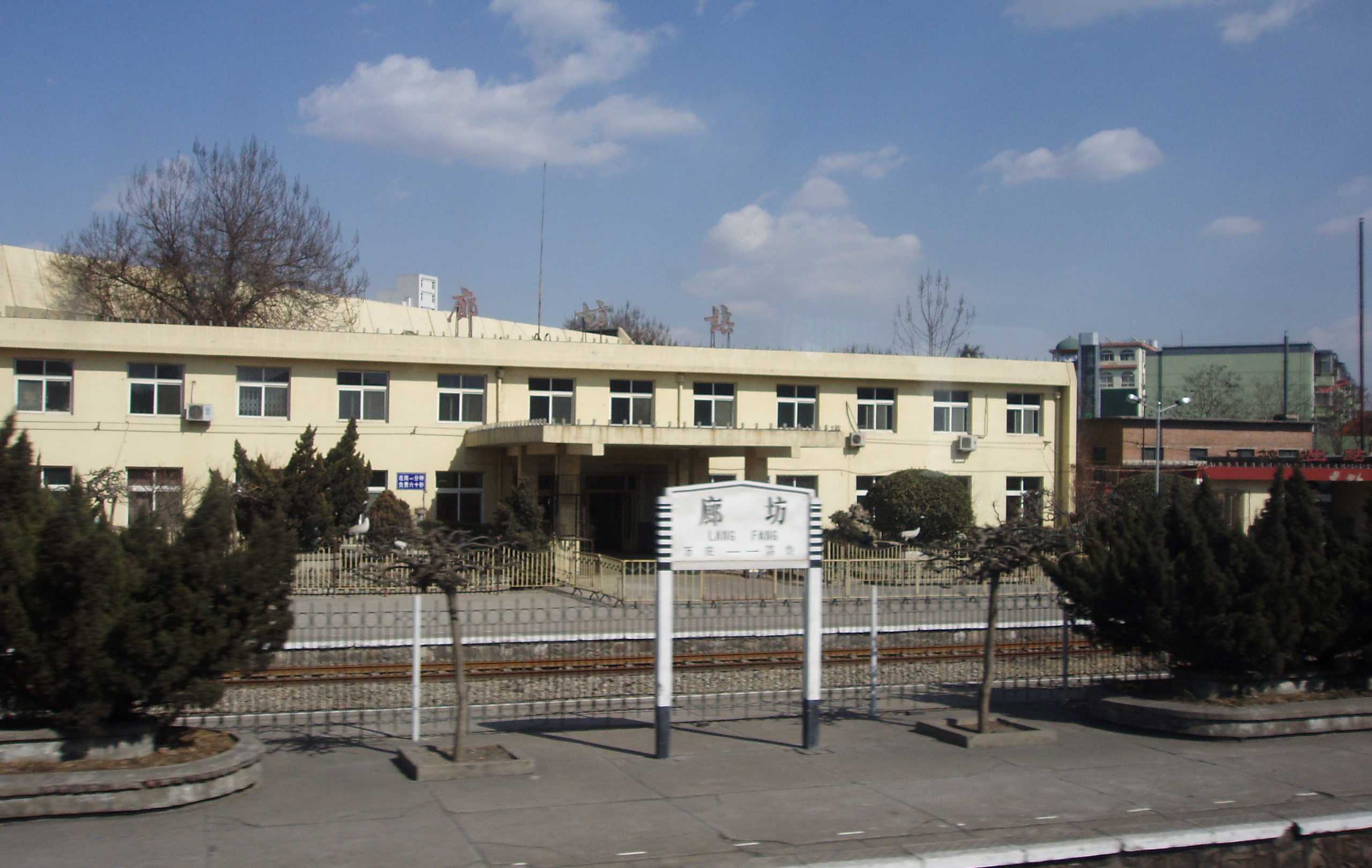 Langfang City, Hebei Province, China